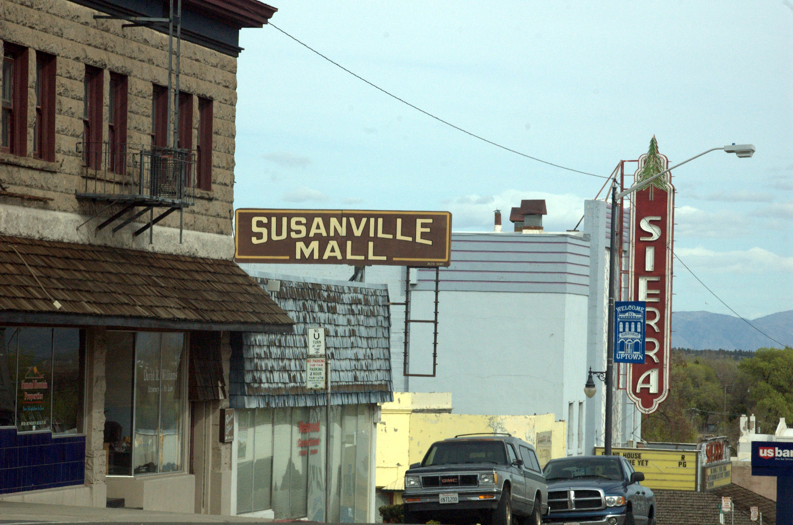 Downtown Susanville, California